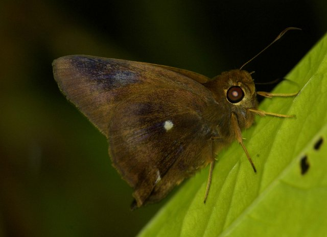 Common Awl, Hasora badra at Nagla, Thane - Sanjay Gandhi National Park (India).